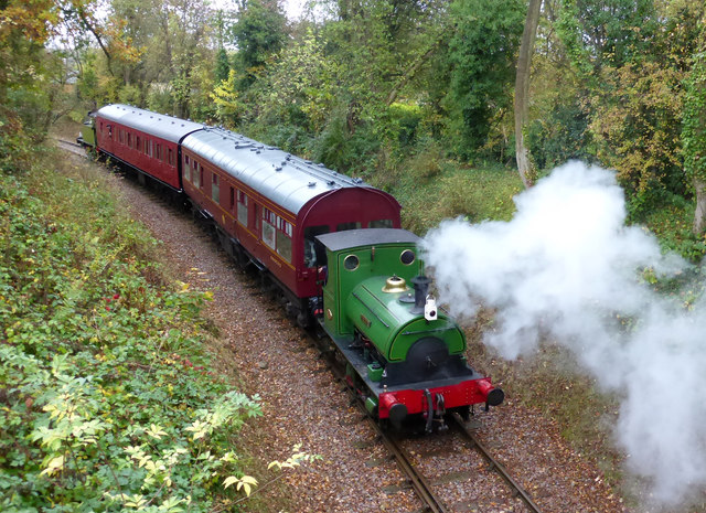 The Mountsorrel Quarryman inaugural trains. First public steam trains on this mineral branch. The train is heading away back to Mountsorrel Station and at this end is Peckett 0-4-0ST No. 2012 built in 1941 and now named Teddy after the late Reverend Teddy Boston of Cadeby. At the other end is 1891 built NER H class.